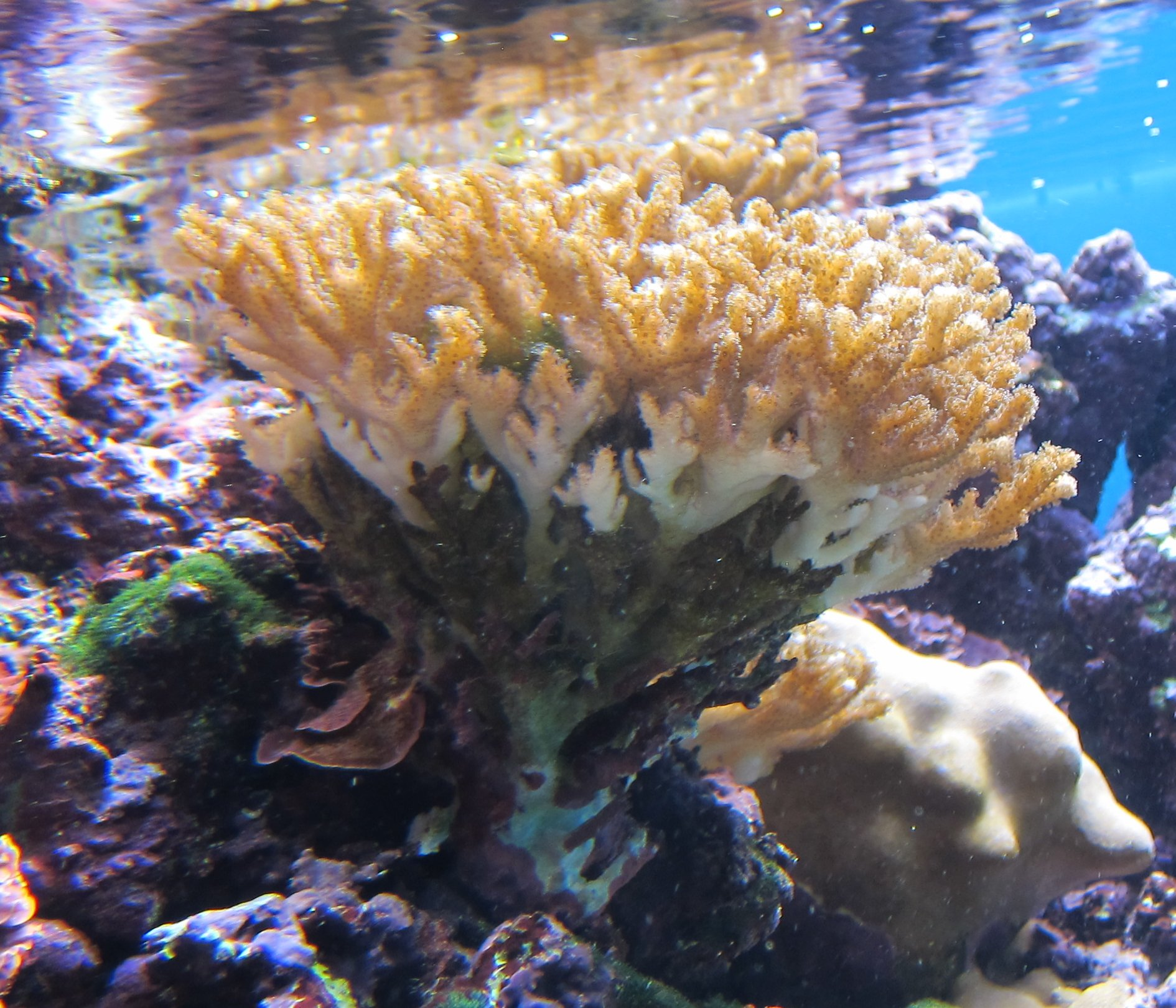 Irregular Rice Coral (Montipora dilatata) at Waikiki Aquarium